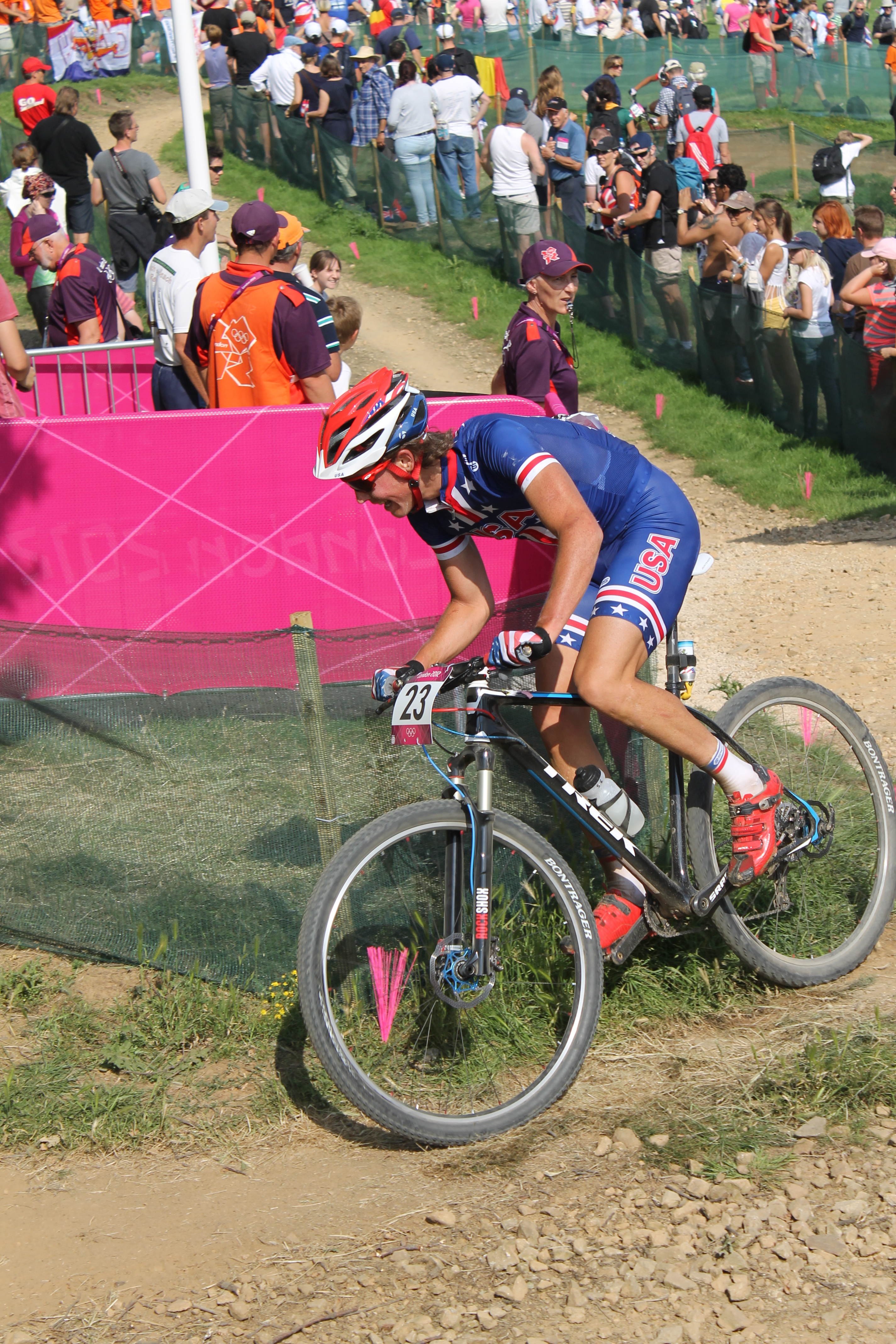 Cycling at the 2012 Summer Olympics – Men's cross-country Samuel Schultz (23) (USA) IMG_4301